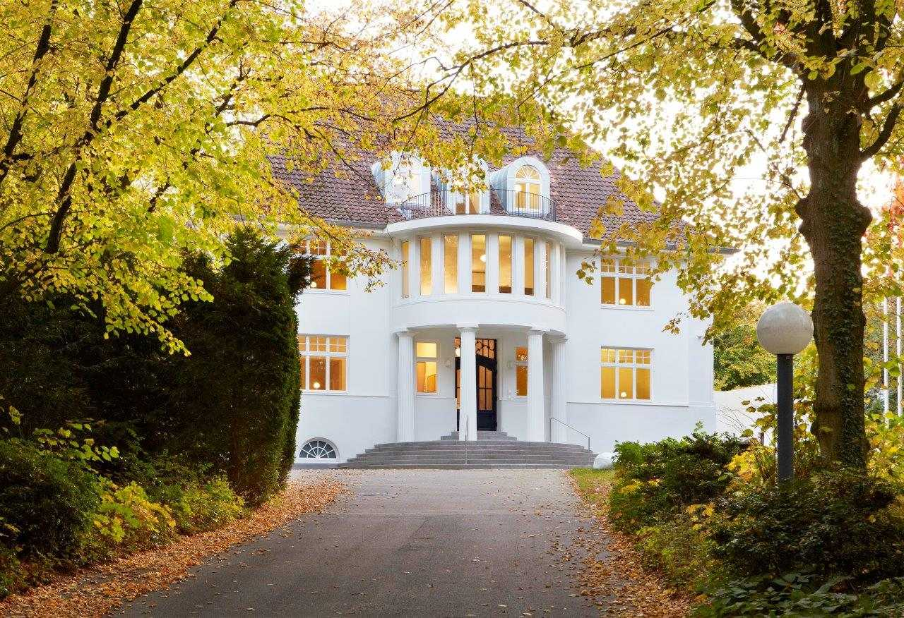 Main building of in Hamburg-Rissen.